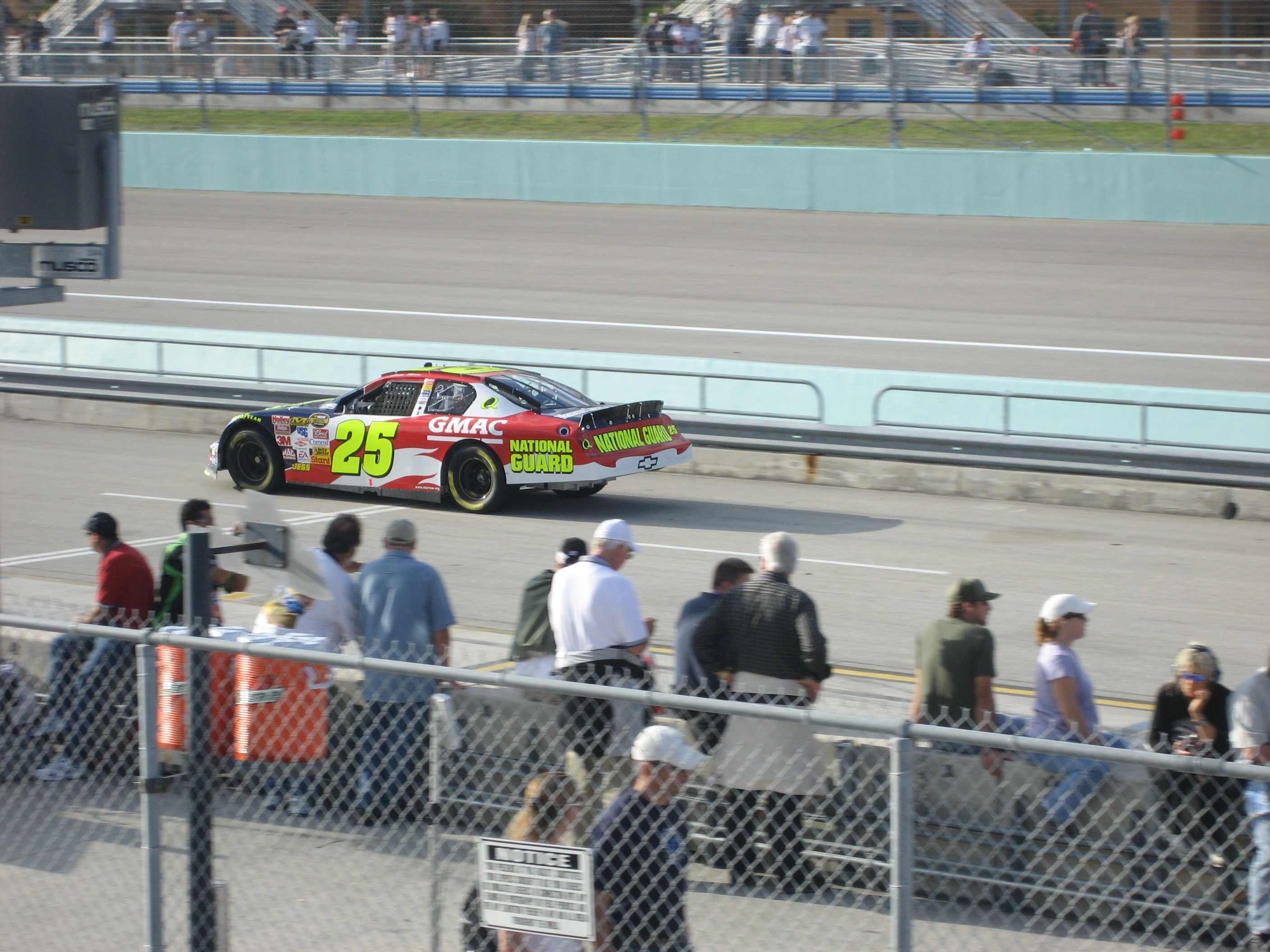 Casey Mears practicing for the 2007 Ford 400 at the Homestead-Miami Speedway.